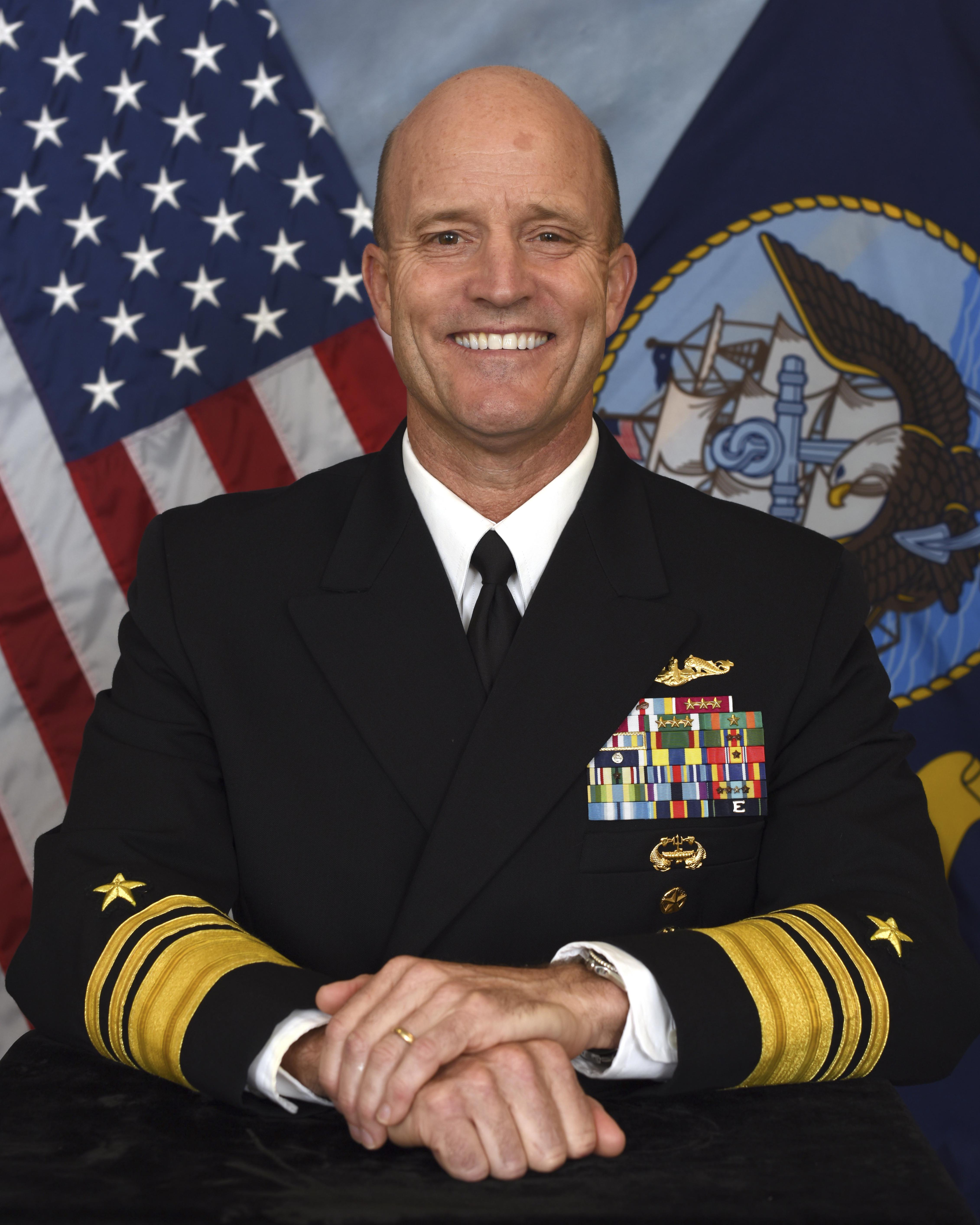 Vice Adm. William R. Merz